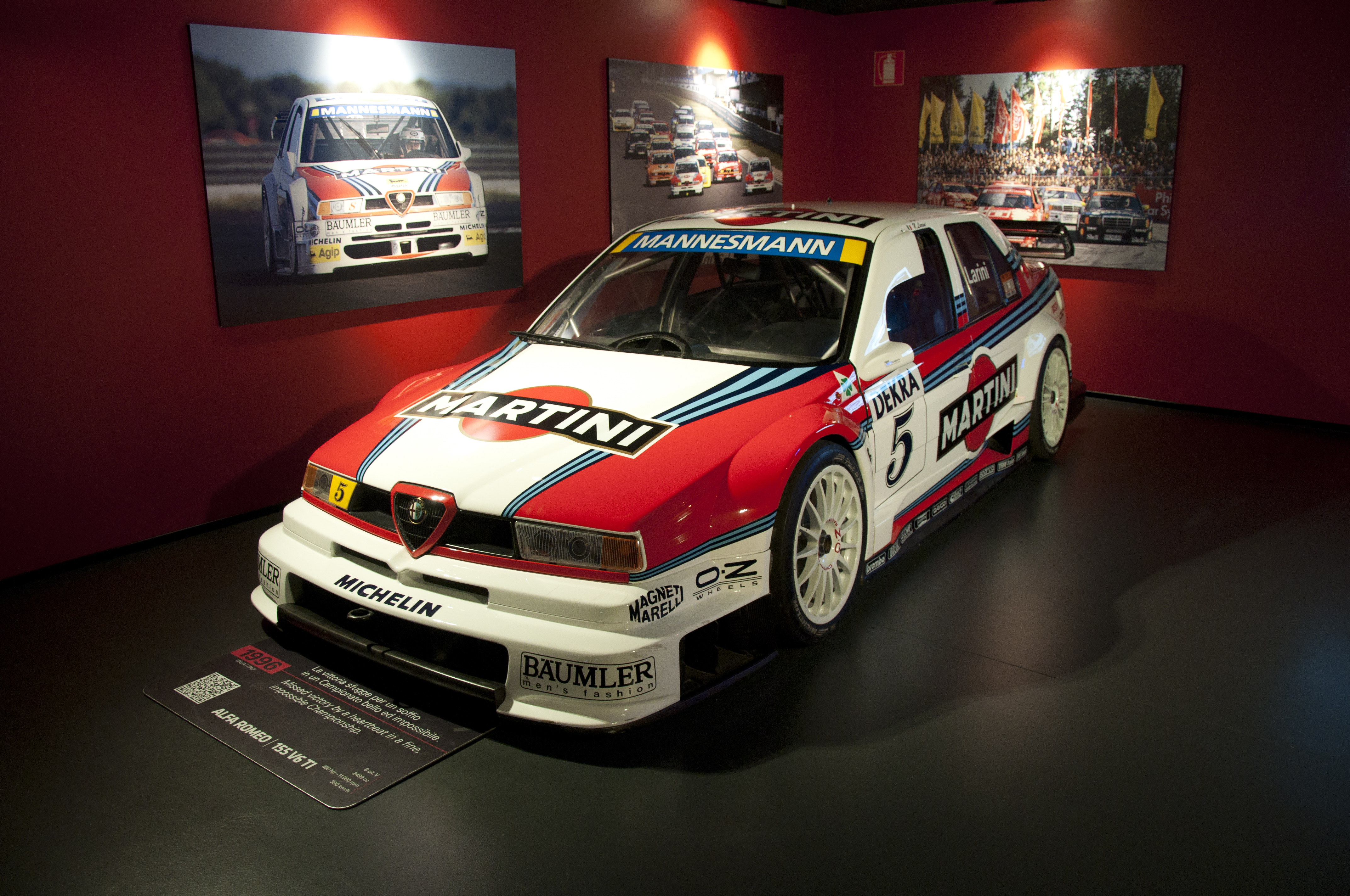 Nicola Larini's #5 Alfa Romeo 155 V6 TI of Martini Racing, Manufacturers standing's runner-up in the 1996 International Touring Car Championship, at the National Automobile Museum (MAUTO) in Turin, Italy.